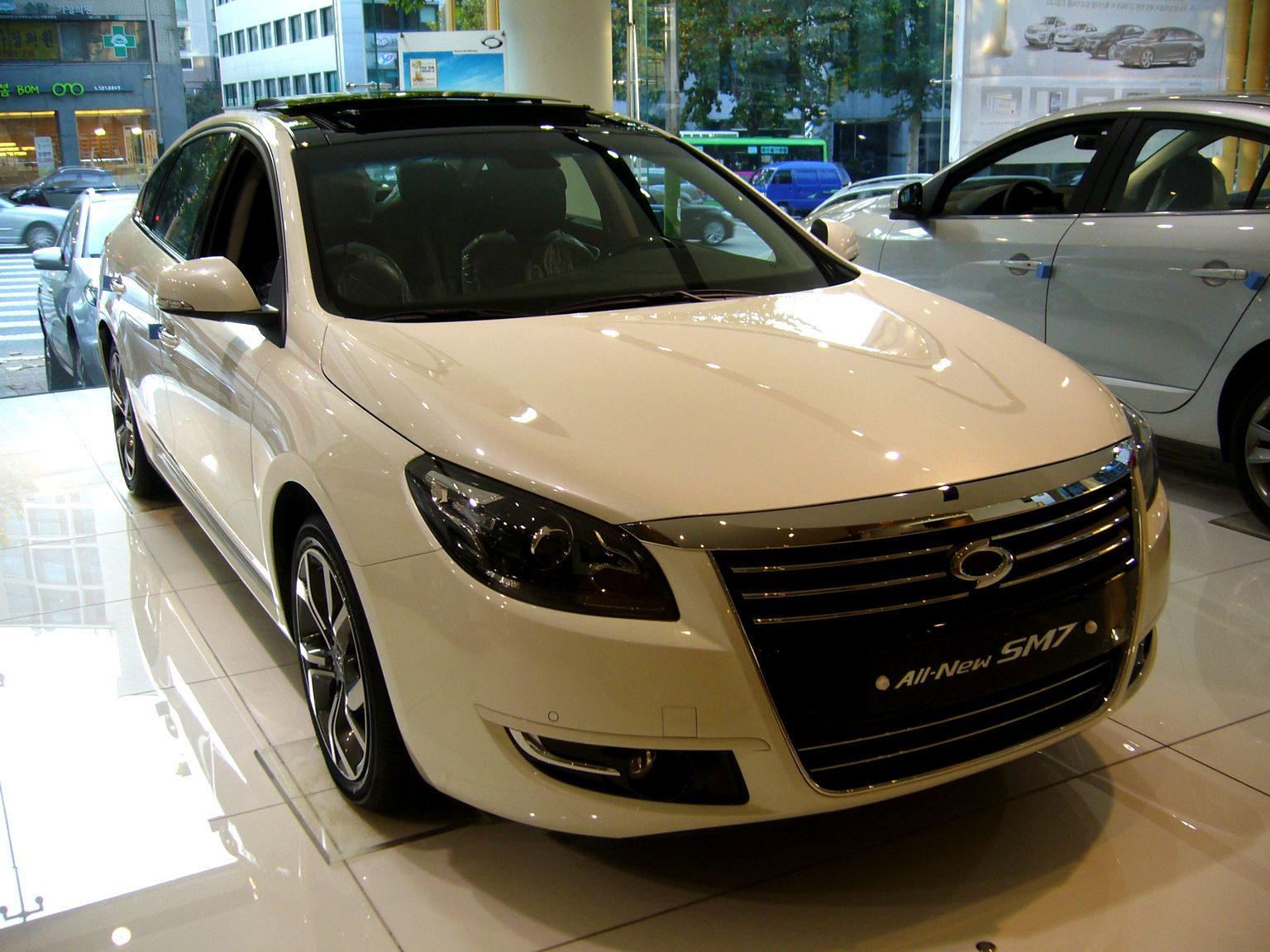 RENAULT SAMSUNG SM7